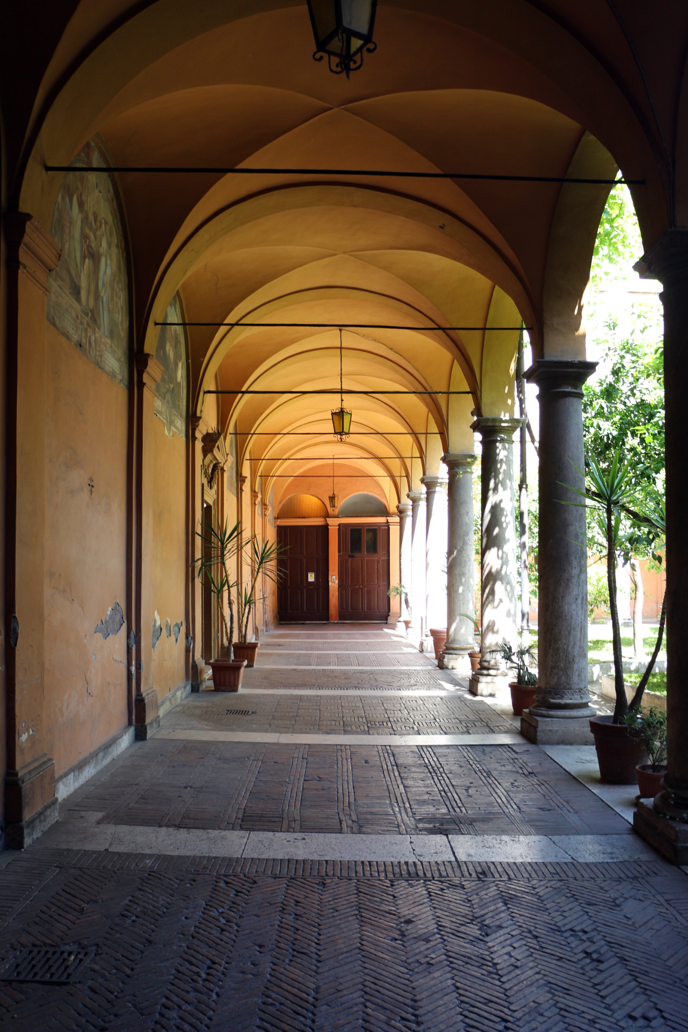 Sant'Andrea delle Fratte - Cloister